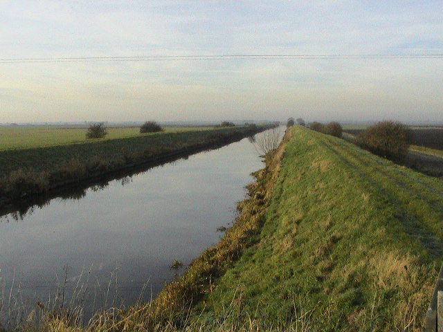 Timberland Delph. One of numerous drainage channels, Timberland Delph slices straight across six separate grid squares.